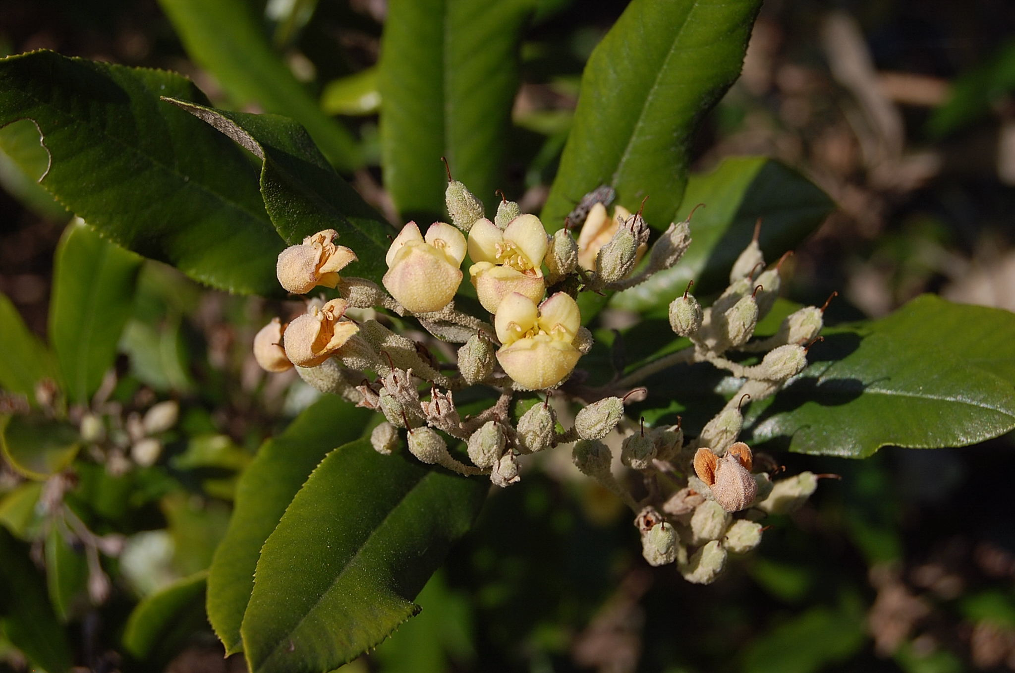 Flors